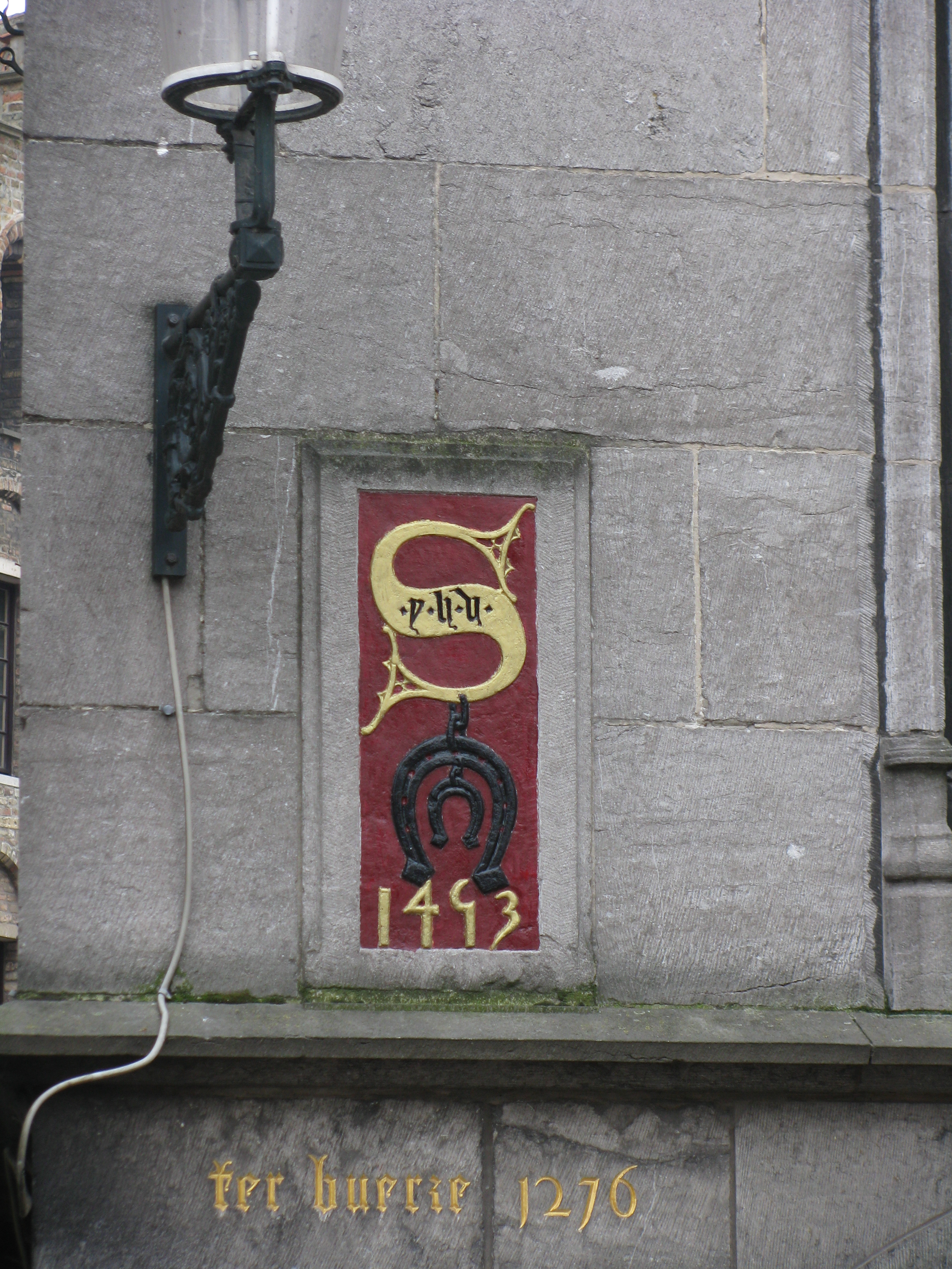 Ter Beurze, Bruges, Belgium